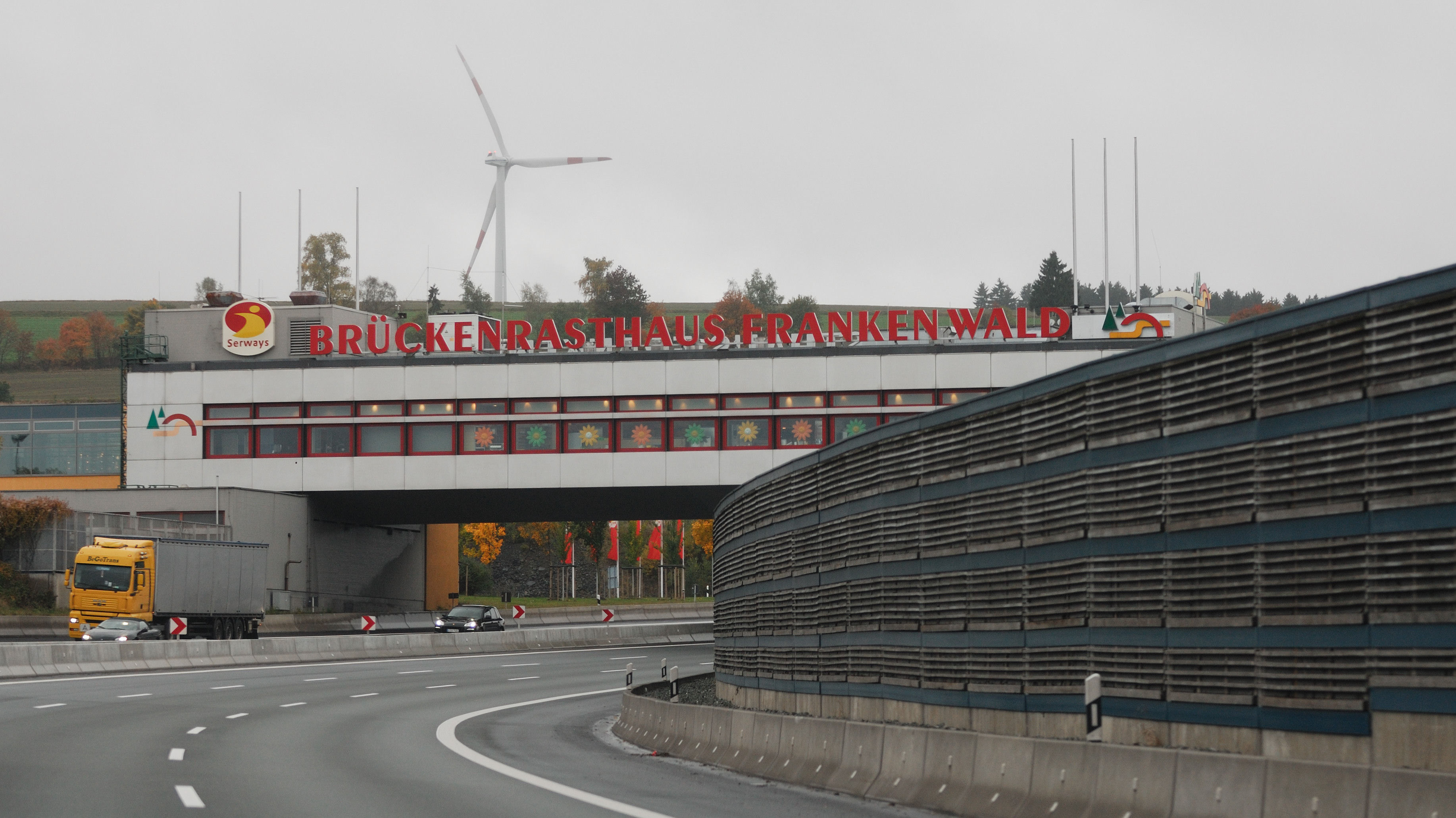 Bridge service area Frankenwald. Road shot from Bundesautobahn 9 highway, view from north.